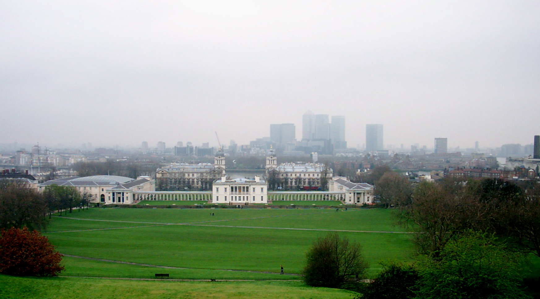 Greenwich, London Borough of Greenwich